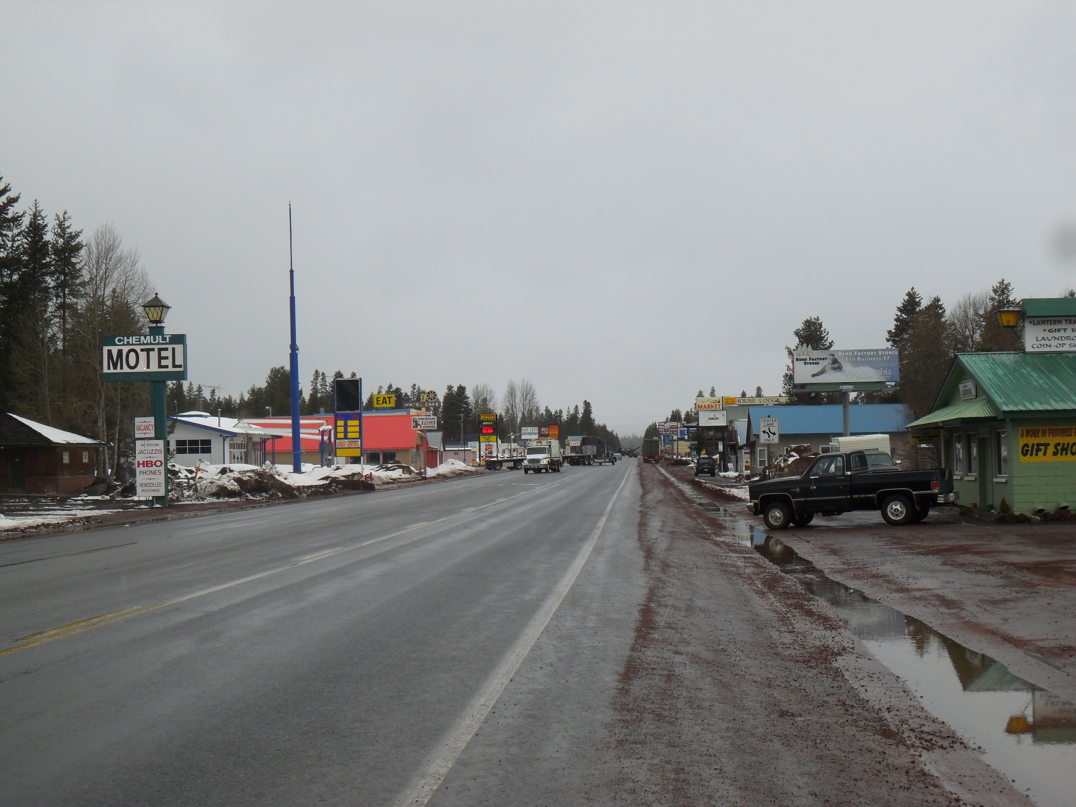 View north of Chemult, Oregon on U.S. Route 97.